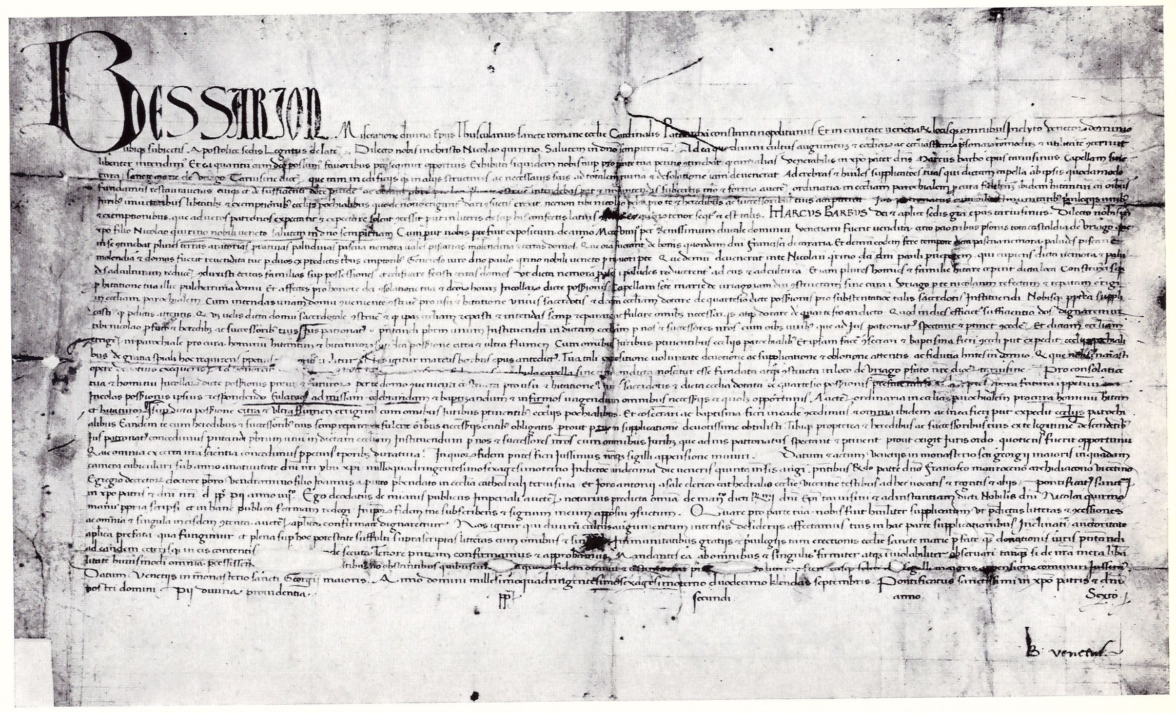 A charter issued by Cardinal Bessarion at the time of his legation at Venice. The charter is at Venice in the Archivio Storico Patriarcale (cassetta pergamene 1).